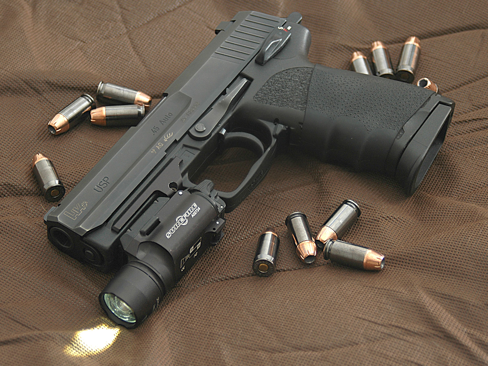 H&K USP .45 Full Size with a Surefire X200A light attached via a Picatinny rail adaptor. The gun also has a Hogue rubber grip. The gun is equipped with Trijicon night sights and is surrounded by .45 caliber Hornady TAP (+P) jacketed hollow point rounds.snopp